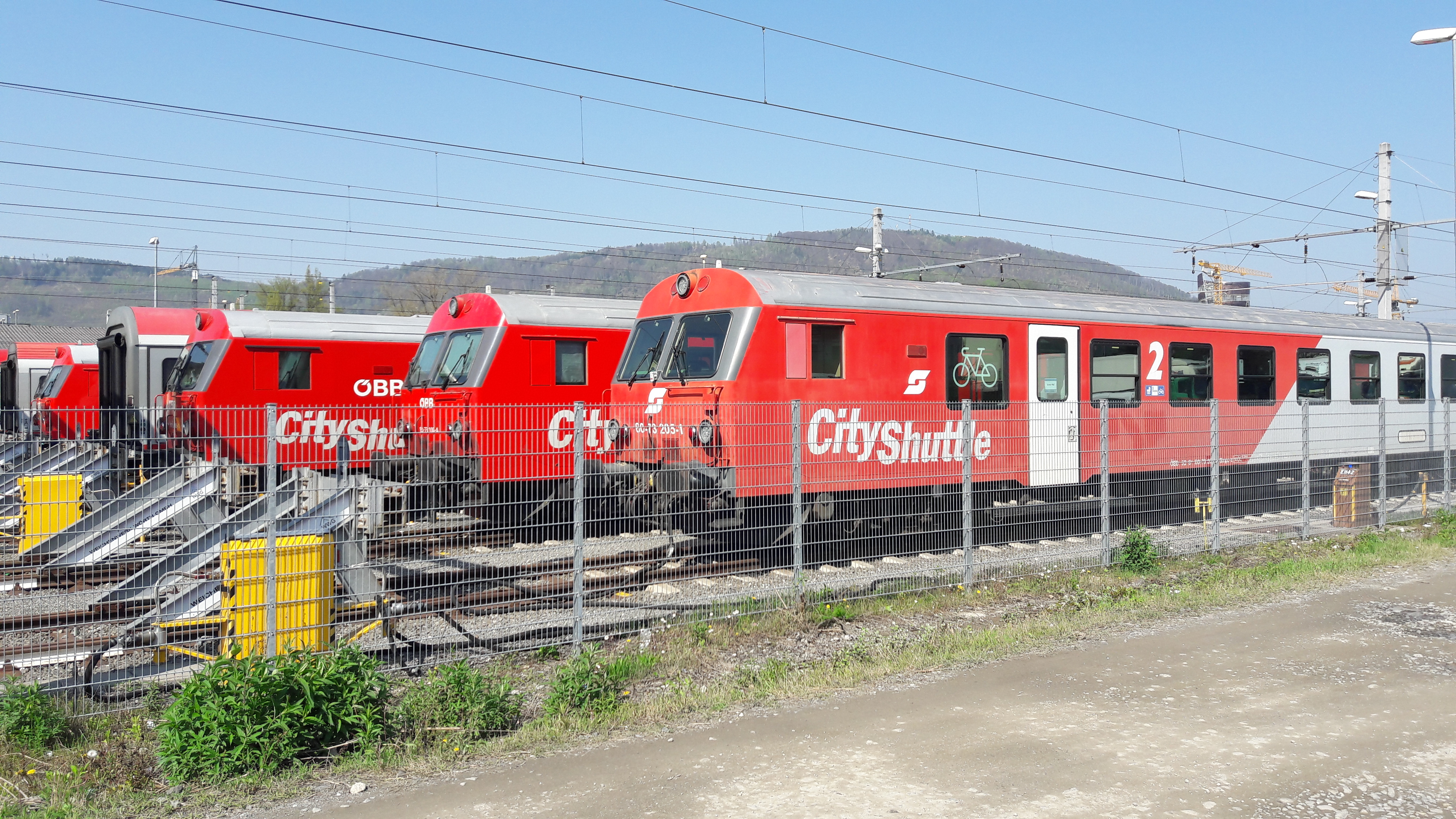 Drei Steuerwagen im Abstellbereich des Grazer Hauptbahnhofes